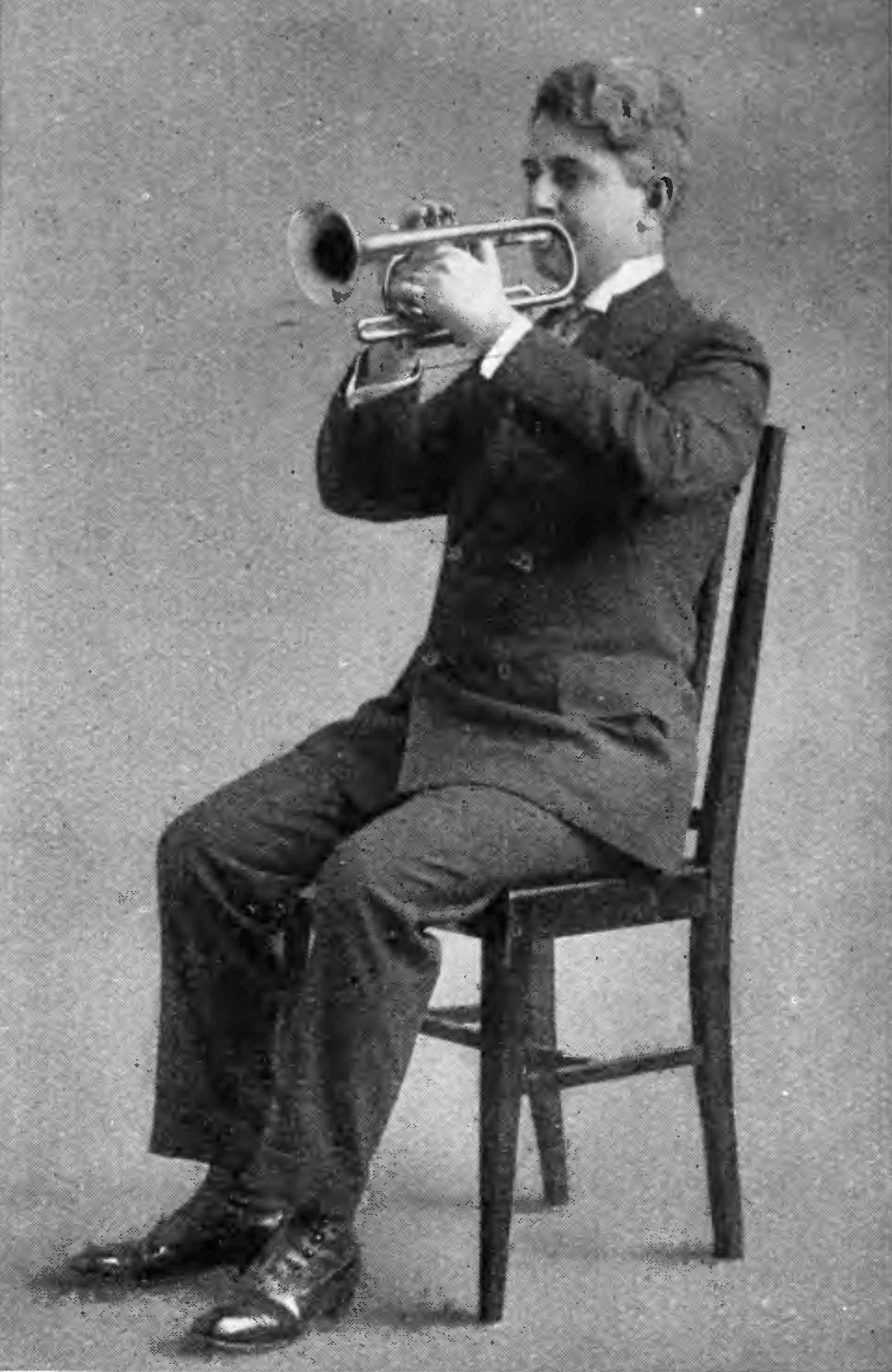 Edwin Franko GoldmanFormerlyMetropolitan Opera HouseOrchestra, N. Y.